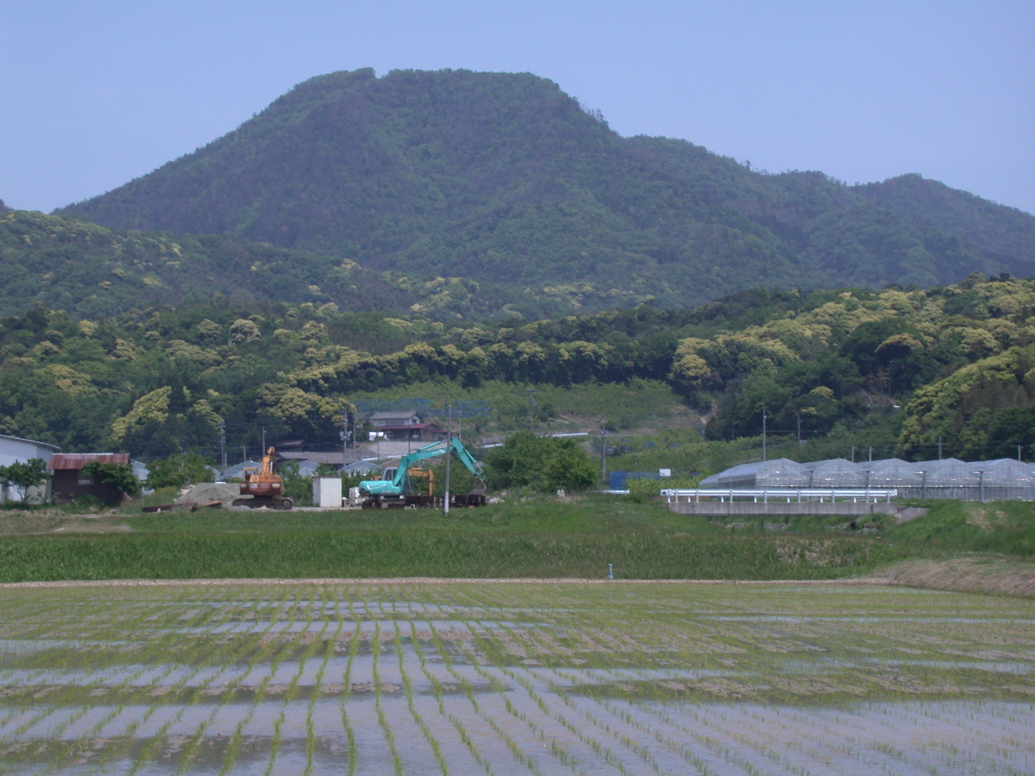 Higasen Castle in Izumo, Shimane prefecture